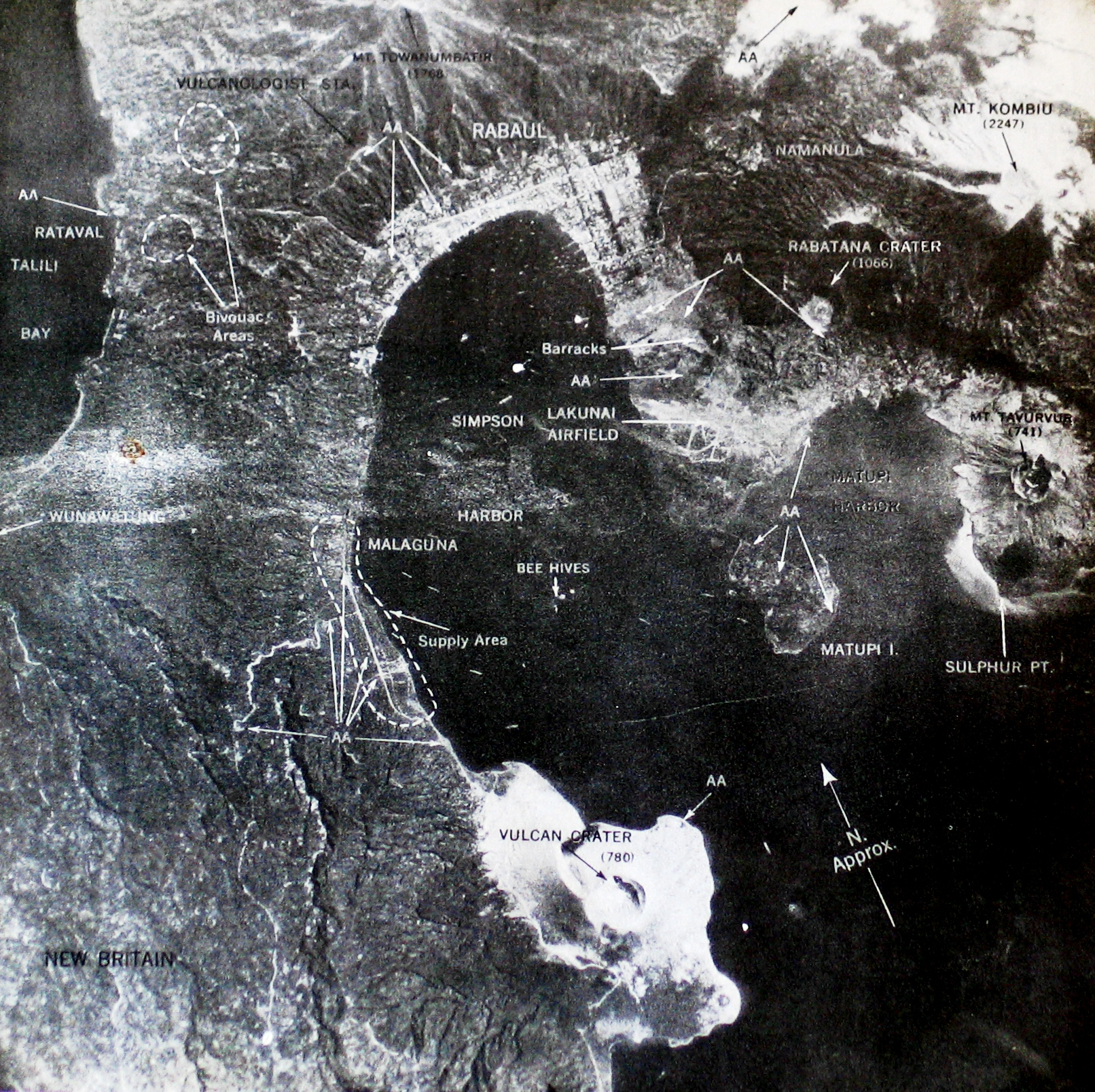 Aerial photograph of Rabaul Licensing The photograph bears the legend "LAKUNAI & RABAUL - VERTICAL N.A.C.I. HYDROGRAPHIC OFFICE WASHINGTON D.C APRIL 29 1943 RESTRICTED NO. 12-1-21-1 & 23 PVI" and has been photographed from the original. That is all the information I have.